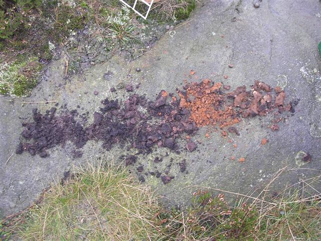 Photo taken by myself showing soil horizons THIS PHOTO SHOWS HOW THE SOIL HORIZON SITS ON TOP OF BEDROCK/SUBSOIL/TOPSOIL&WHAT IT LOOKS LIKE &HOW THE PARELLEL LINE SHAPES